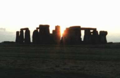 Stonehenge sunset photo by Graham Burnett (quercus robur). If re-used a credit would be appreciated but is not compulsory!